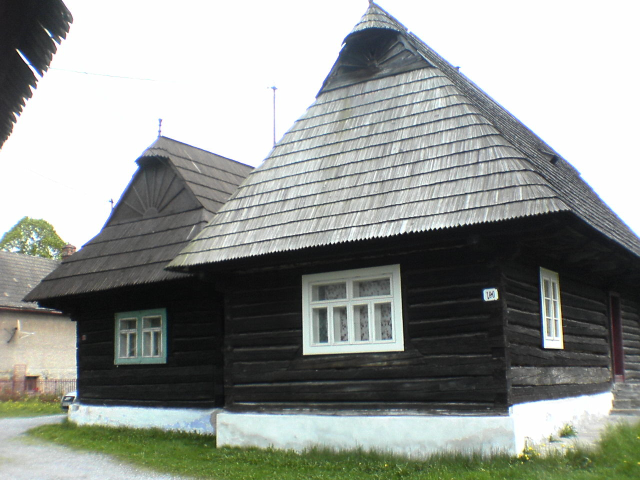 Typical old houses in Podbiel